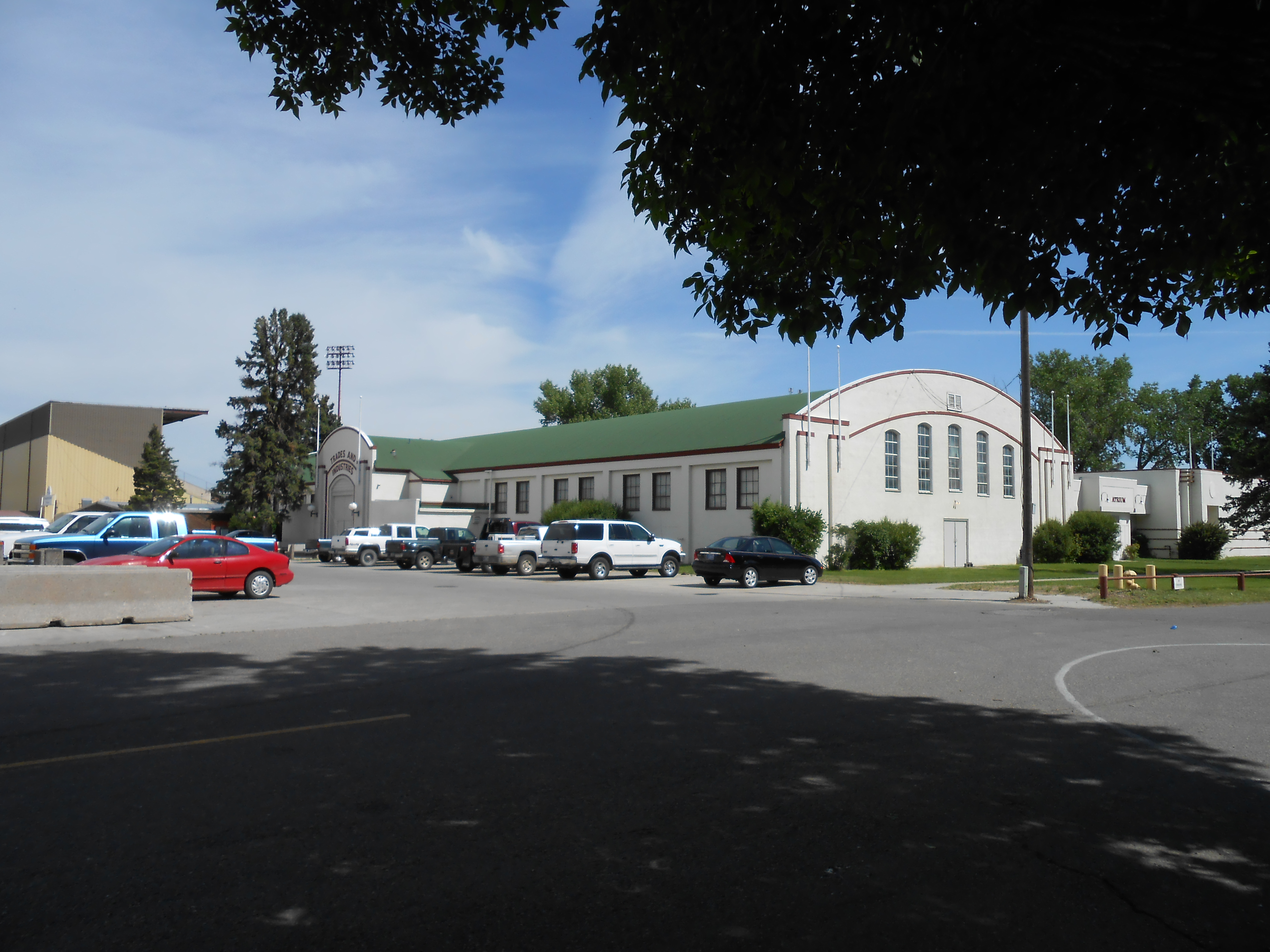 Fairgrounds at Great Falls, Montana; Montana Expo Park, home of the Montana State Fair.